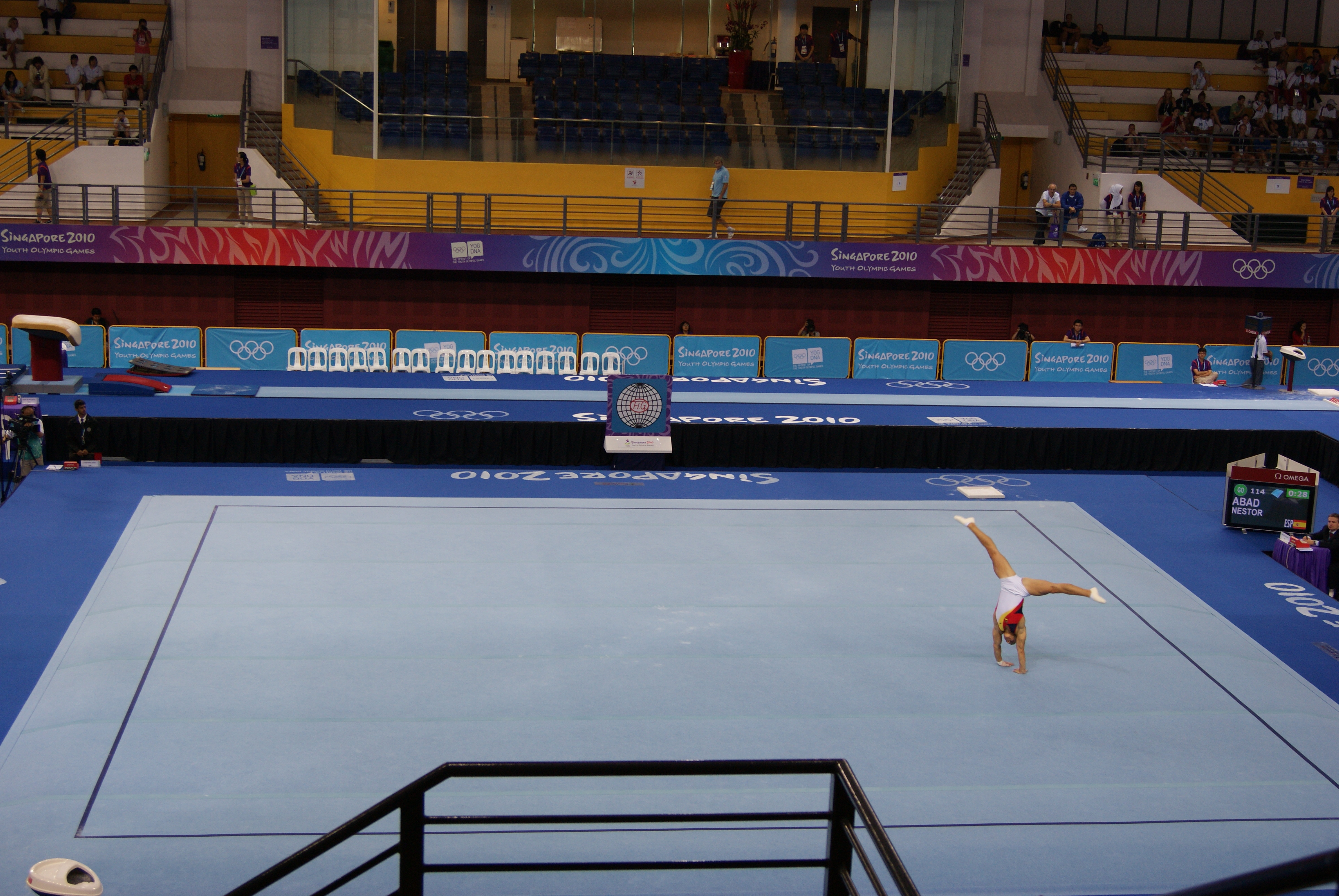 Spanish gymnast Néstor Abad's floor exercise during Men's Qualification – Subdivision 1 of the artistic gymnastics competition at the 2010 Summer Youth Olympics at Bishan Sports Hall, Singapore.